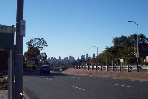 Logan Road, Greenslopes, with Brisbane CBD